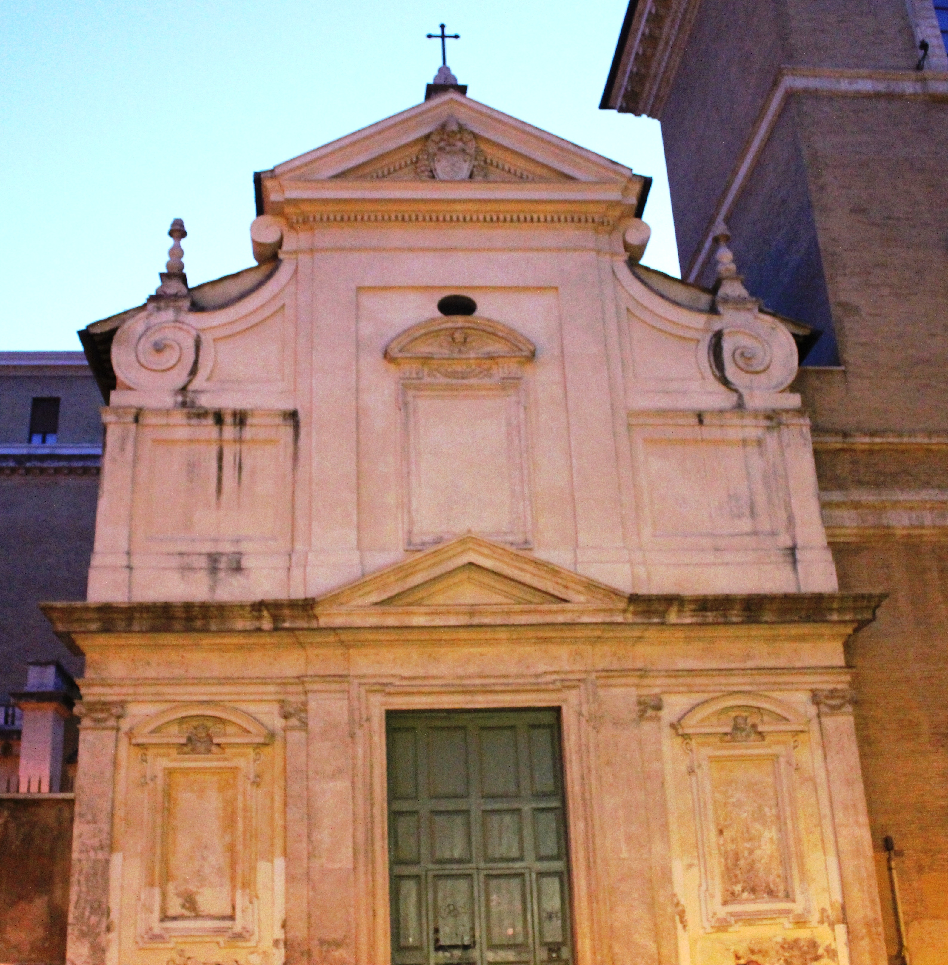 San Callisto is a 17th century titular and former convent church at Piazza di San Callisto 16 in Trastevere, Rome, Italy